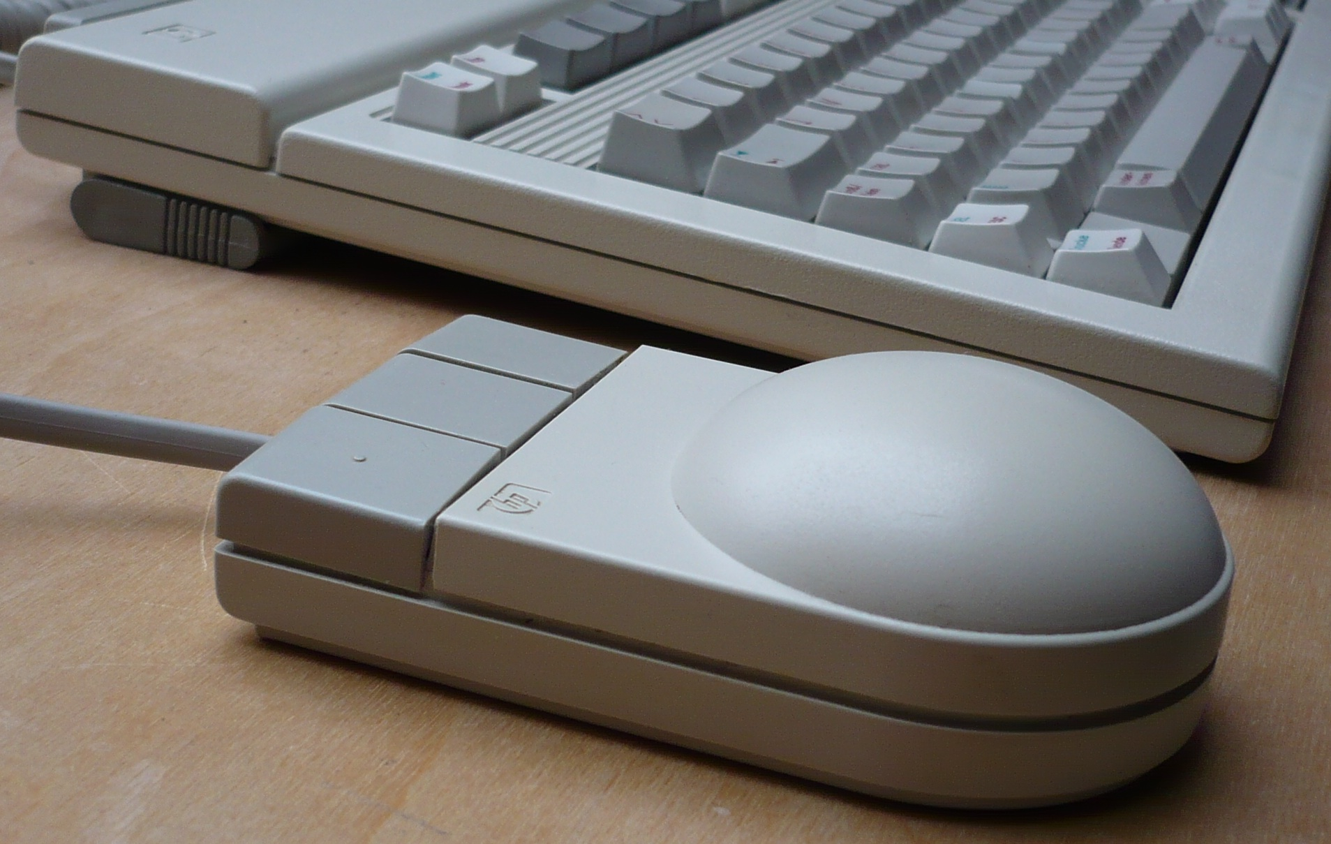 Hewlett-Packard HP-HIL mouse (product no. 46060B)